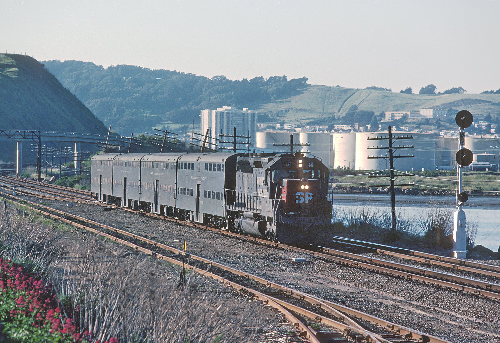 A Roger Puta Photograph